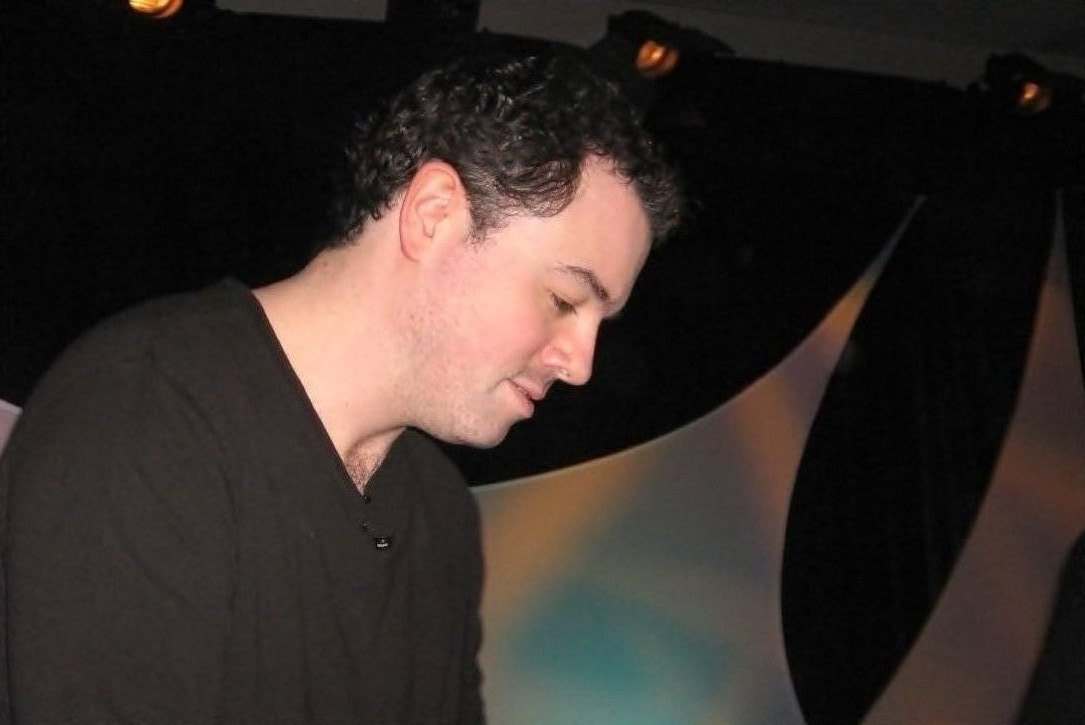 Seth MacFarlane Image taken from here at the Star Wars Convention in LA on May 27, 2007. Taken by DarthRayne. Some minor post-processing by Rama